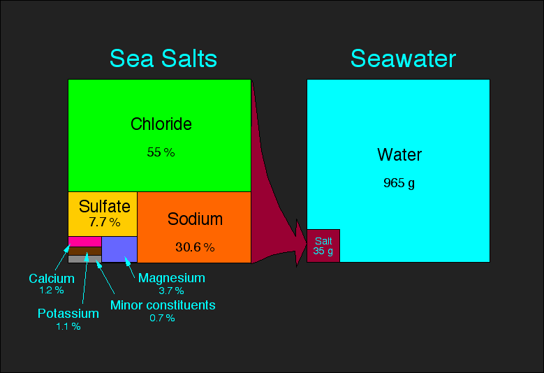 Proportion of salt to sea water (right) and chemical composition of sea salt